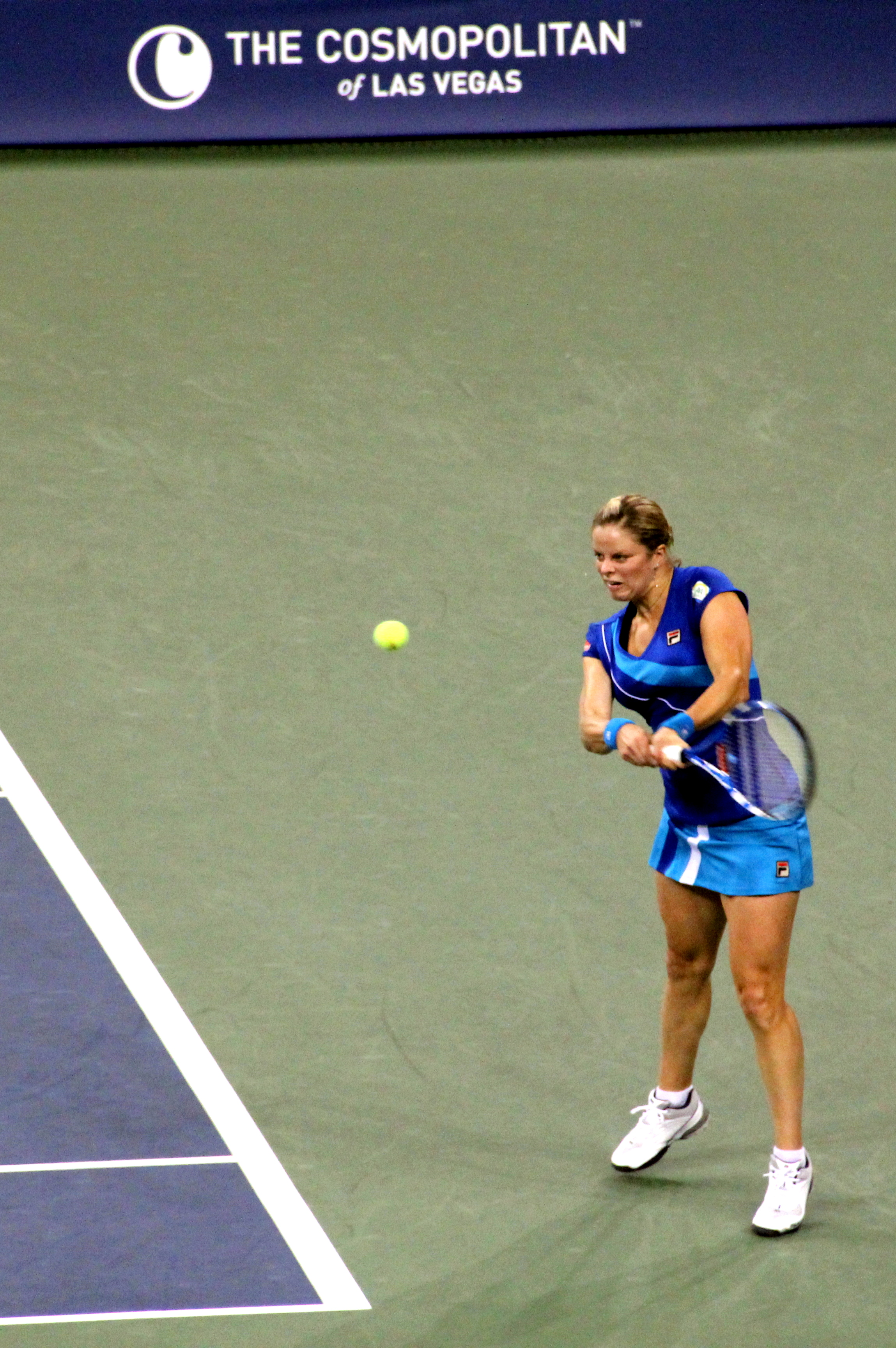 Clijsters vs. Stosur match on Tuesday night, 9/7 at the US Open. The Cosmopolitan is in New York for the 2010 US Open, inviting attendees and guests to experience signature views from our Overlook and in our custom designed suite with prime-stadium seating.Billy and Alec Baldwin in the crowd Tuesday night, 9/7, at the US Open. The Cosmopolitan is in New York for the 2010 US Open, inviting attendees and guests to experience signature views from our Overlook and in our custom designed suite with prime-stadium seating. For more information on The Cosmopolitan visit